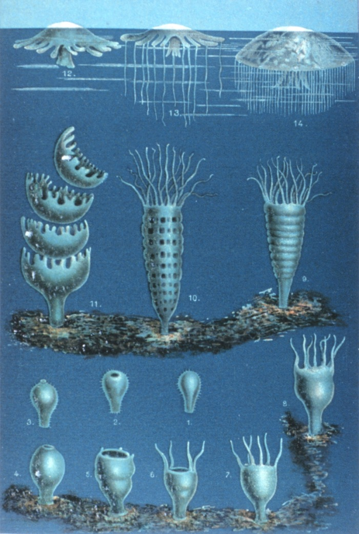 Life cycle of scyphozoans. 1-8 – planula attachment and metamorphosis to scyphistoma stage; 9-10 – scyphistoma strobilation; 11 – ephyra release; 12-14 – transformation of the ephyra into an adult medusa